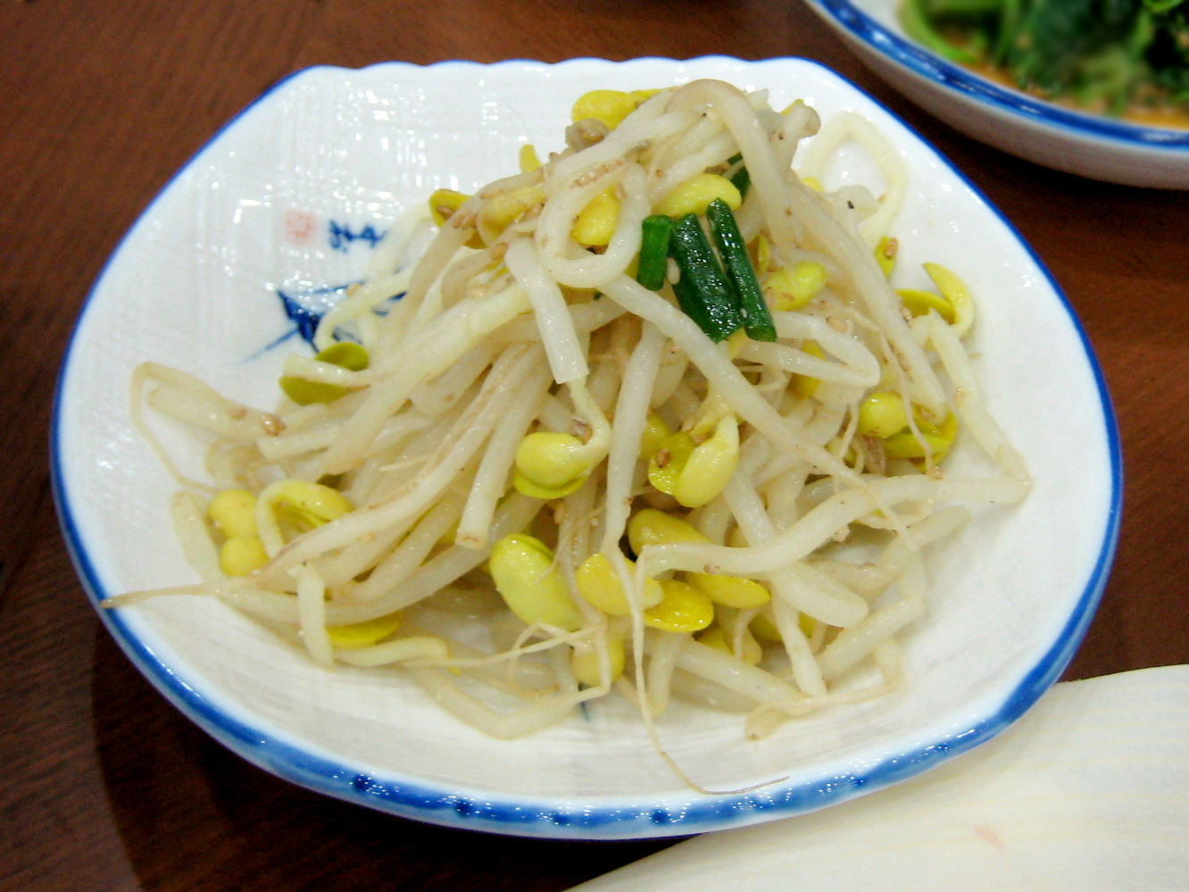 Kongnamul (sauteed soy bean sprouts) in Korean cuisine